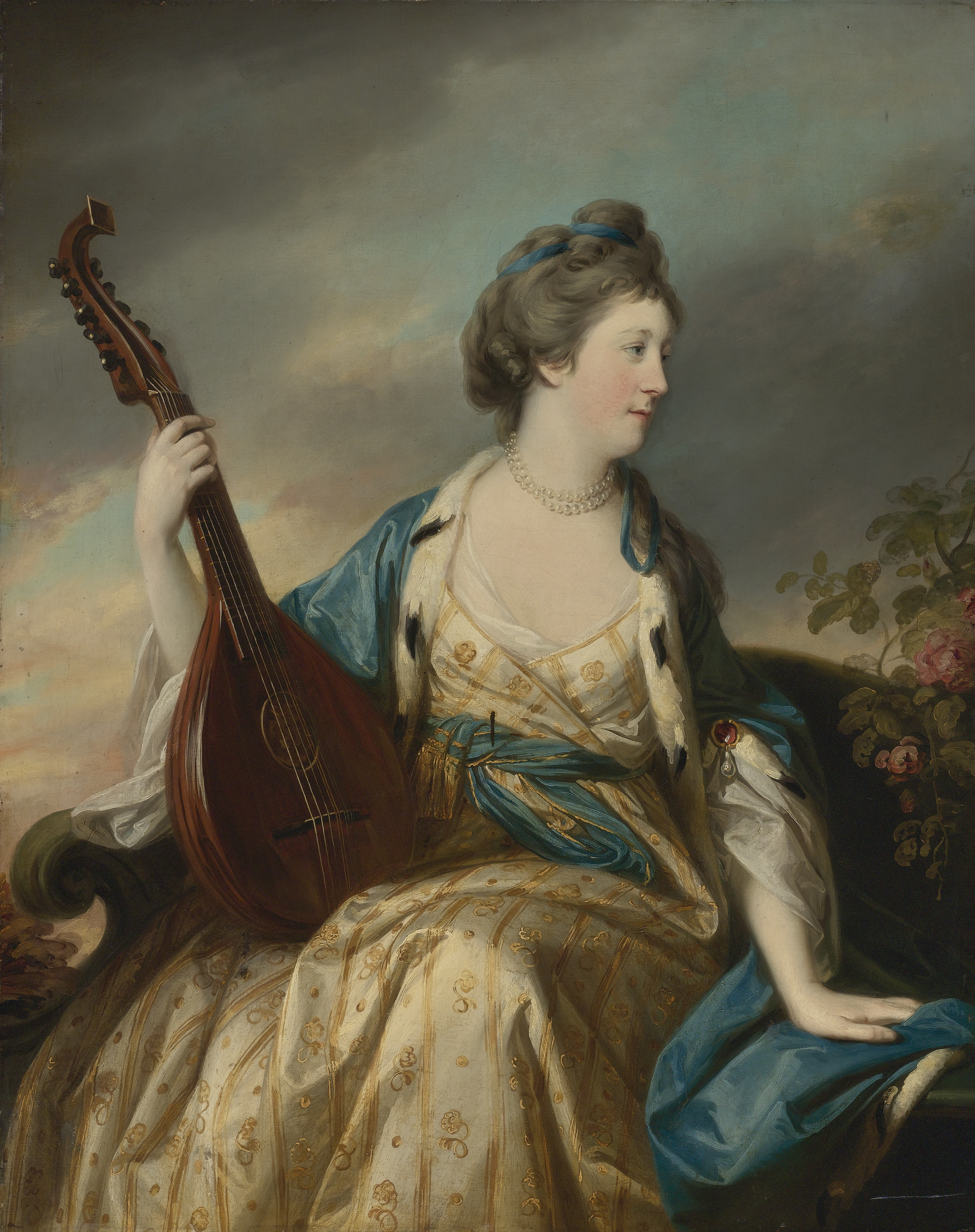 Alice, Countess of Shipbrook oil on canvas 127 x 101.6 cm